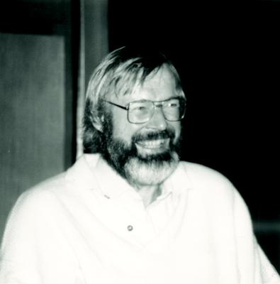 Description at MFO: "On the Photo: Herrlich, H. — Location: Oberwolfach — Author: Jacobs, Konrad (photos provided by Jacobs, Konrad) — Source: Konrad Jacobs, Erlangen — Year: 1987 — Copyright: MFO — Photo ID: 1690"